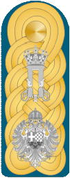 Field marshal of Yugoslavian Army 1923-1941